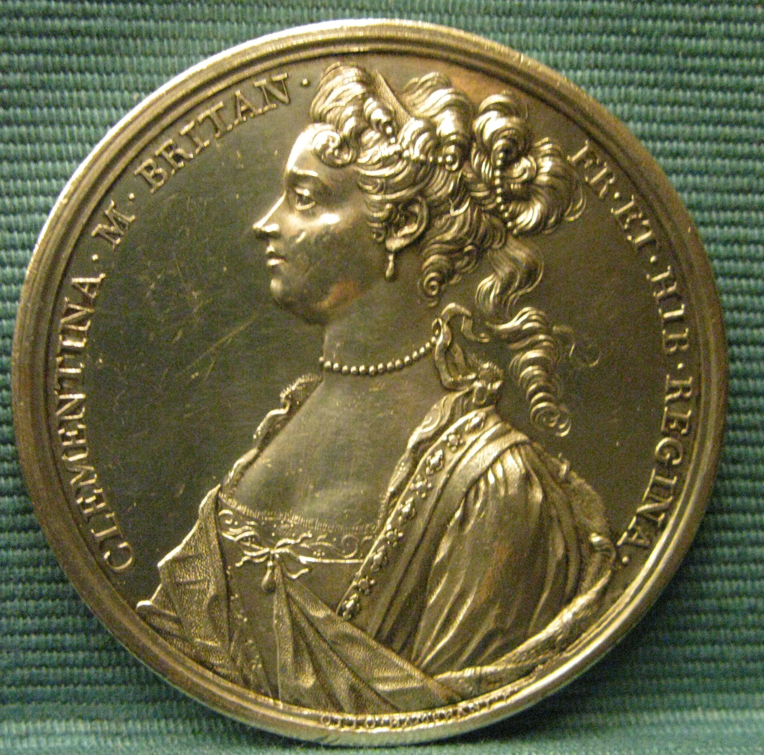 Diademed, ermine-mantled, and draped bust of Maria Clementina left. CLEMENTINA · M · BRITAN · FR · ET · HIB · REGINA ·. Below OTTO·HAMERANI·F· (in latin Otto Hamerani fecit)